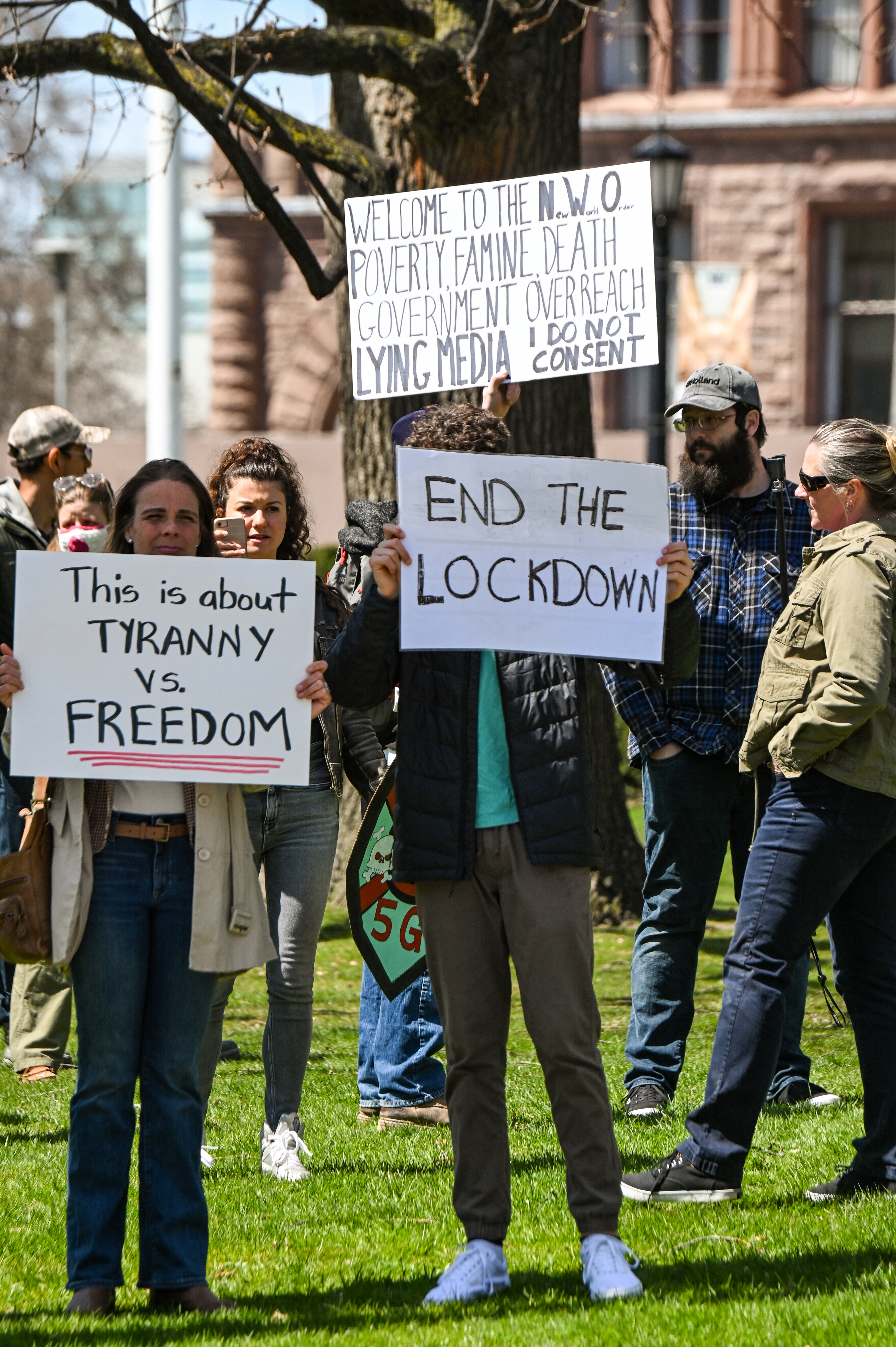 Protesters at Queen's Park on Saturday, April 25 demand an end to public health rules put in place to stop the spread of COVID-19.